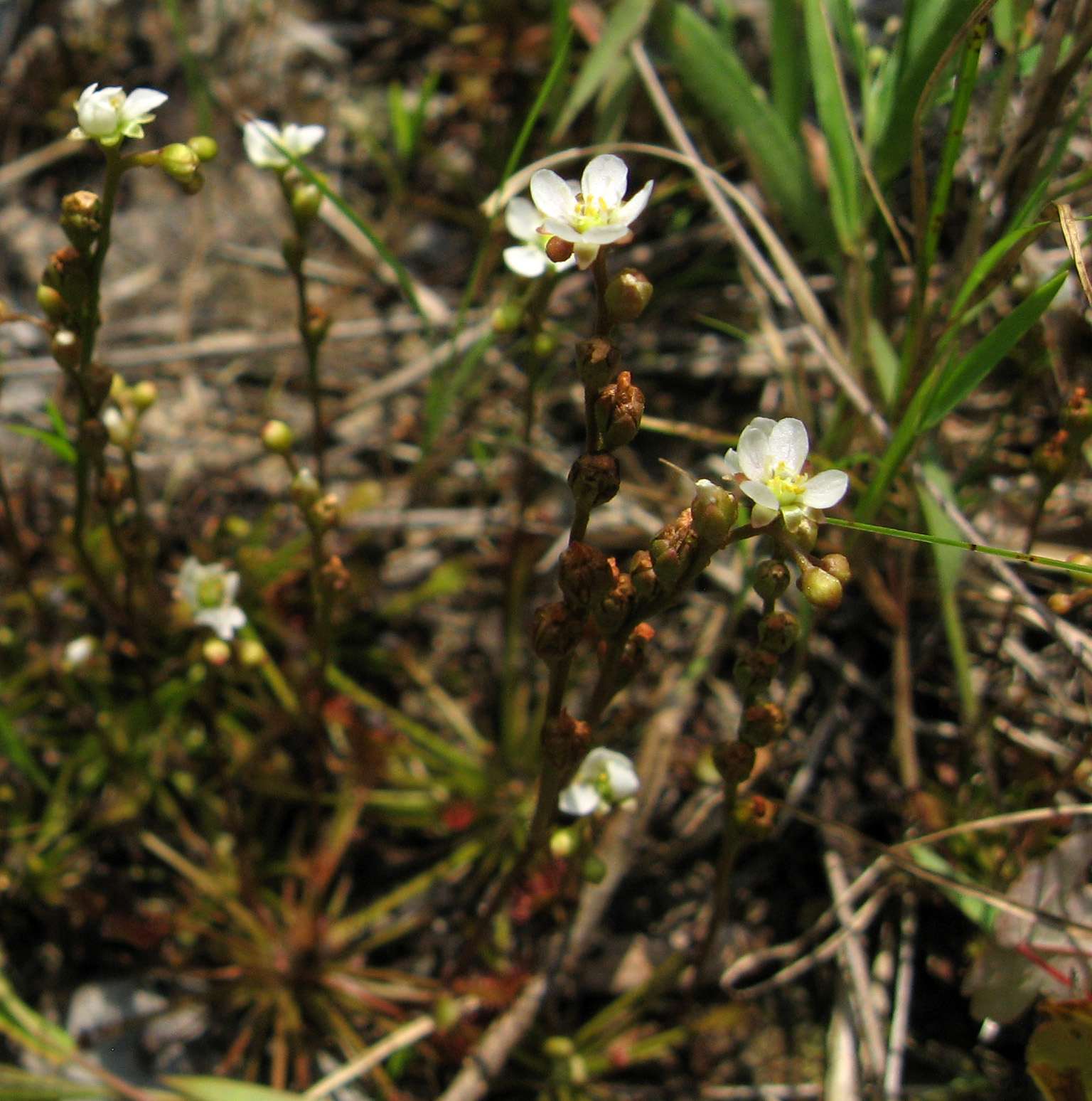 Flowers of Drosera intermedia, growing in an open wet prairie near Sulphur Creek. Russell County, Kentucky.